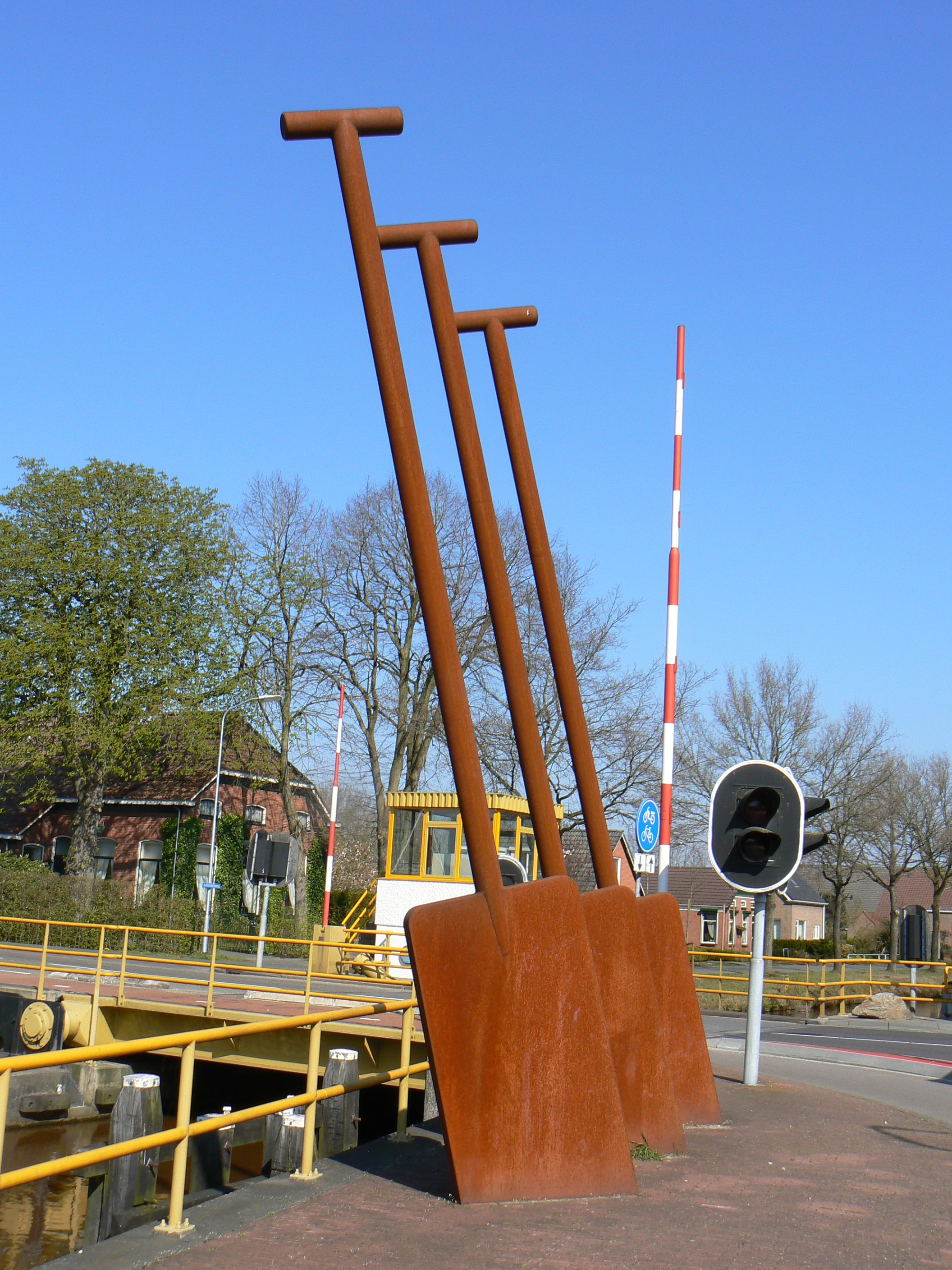 sculpture Nulwegbrug in Ter Apelkanaal/The Netherlands